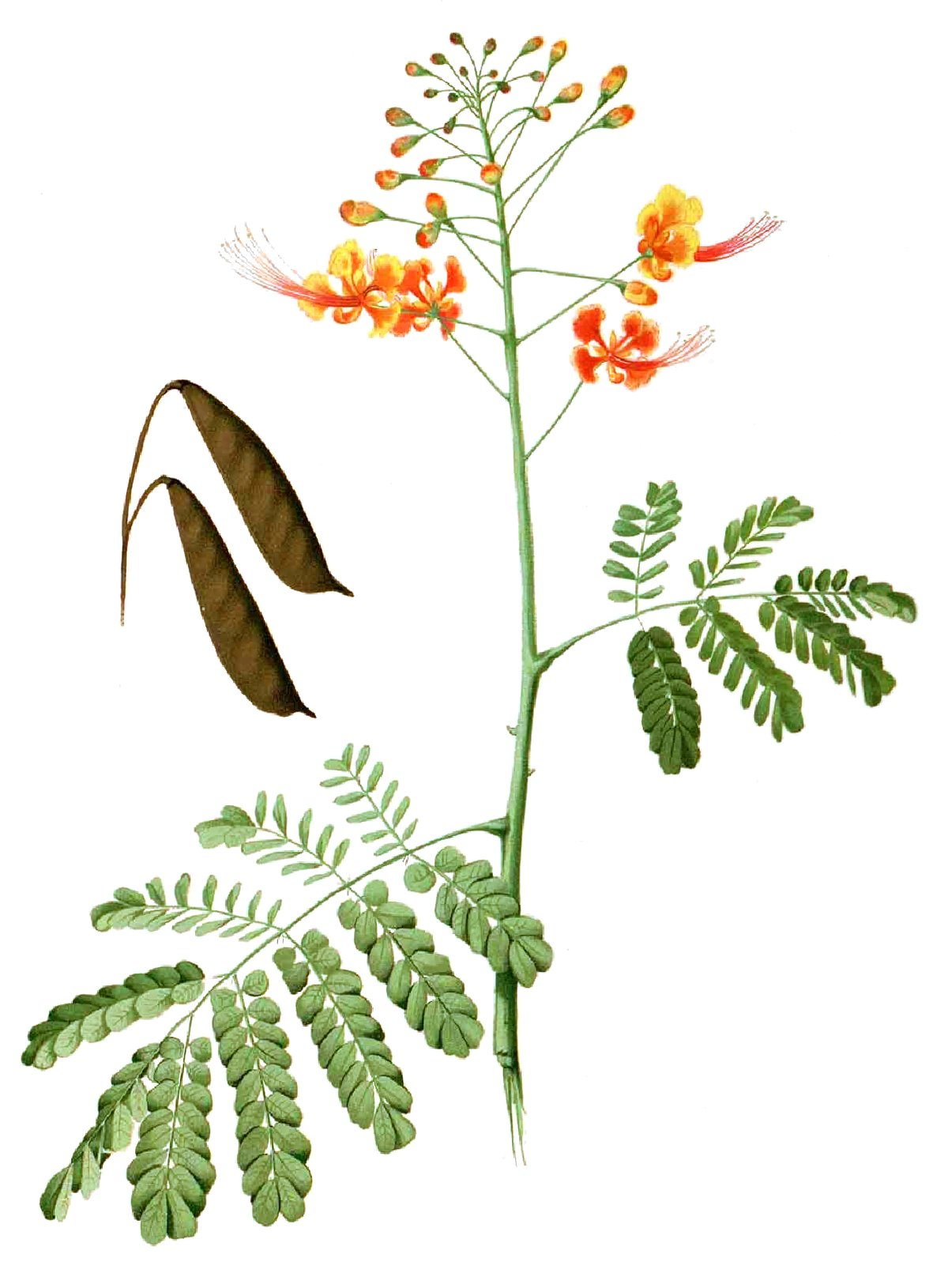 Plate from book